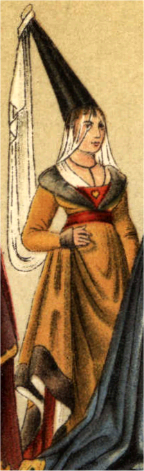 Johanna of Flanders (1341)